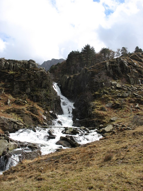 Another view of the Ogwen Falls.